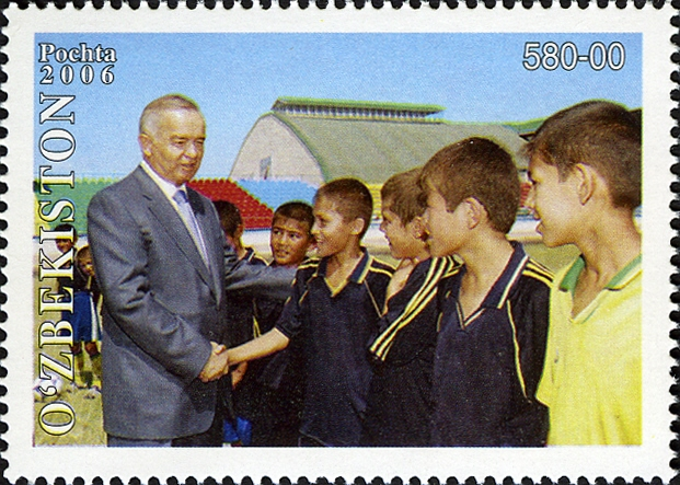 Stamps of Uzbekistan, 2006